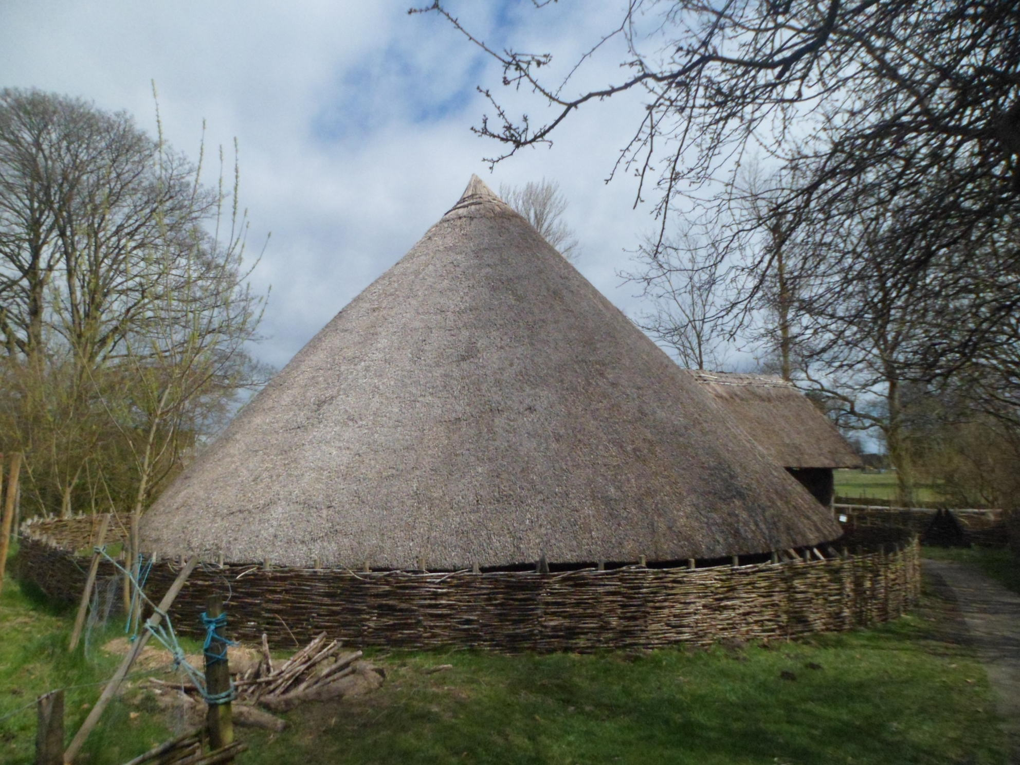 The reconstructed roundhouse, at Ryedale Folk Museum, Hutton-le-Hole, England.